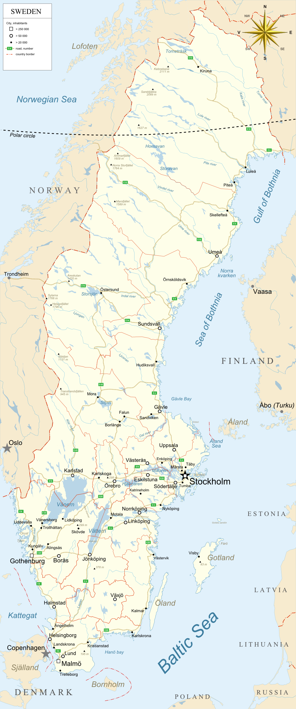 Map of Sweden with cities and country borders.